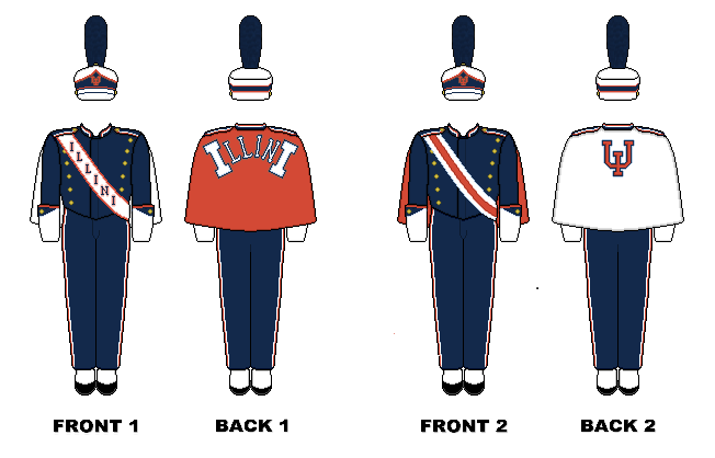 Uniform worn by the Marching Illini, as of May 2017.